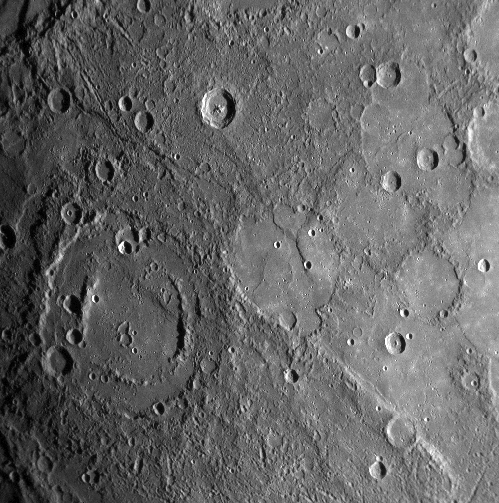 Shortly following MESSENGER’s closest approach to Mercury on January 14, 2008, the spacecraft’s Narrow Angle Camera (NAC) on the Mercury Dual Imaging System (MDIS) instrument acquired this image as part of a mosaic that covers much of the sunlit portion of the hemisphere not viewed by Mariner 10. Images such as this one can be read in terms of a sequence of geological events and provide insight into the relative timing of processes that have acted on Mercury's surface in the past. The double-ringed crater pictured in the lower left of this image appears to be filled with smooth plains material, perhaps volcanic in nature. This crater was subsequently disrupted by the formation of a prominent scarp (cliff), the surface expression of a major crustal fault system, that runs alongside part of its northern rim and may have led to the uplift seen across a portion of the crater’s floor. A smaller crater in the lower right of the image has also been cut by the scarp, showing that the fault beneath the scarp was active after both of these craters had formed. The MESSENGER team is working to combine inferences about the timing of events gained from this image with similar information from the hundreds of other images acquired by MESSENGER to extend and refine the geological history of Mercury previously defined on the basis only of Mariner 10 images. This MESSENGER image was taken from a distance of about 18,000 kilometers (11,000 miles) from the surface of Mercury, at 20:03 UTC, about 58 minutes after the closest approach point of the flyby. The region shown is about 500 kilometers (300 miles) across, and craters as small as 1 kilometer (0.6 mile) can be seen in this image. Explanation page at: [1]